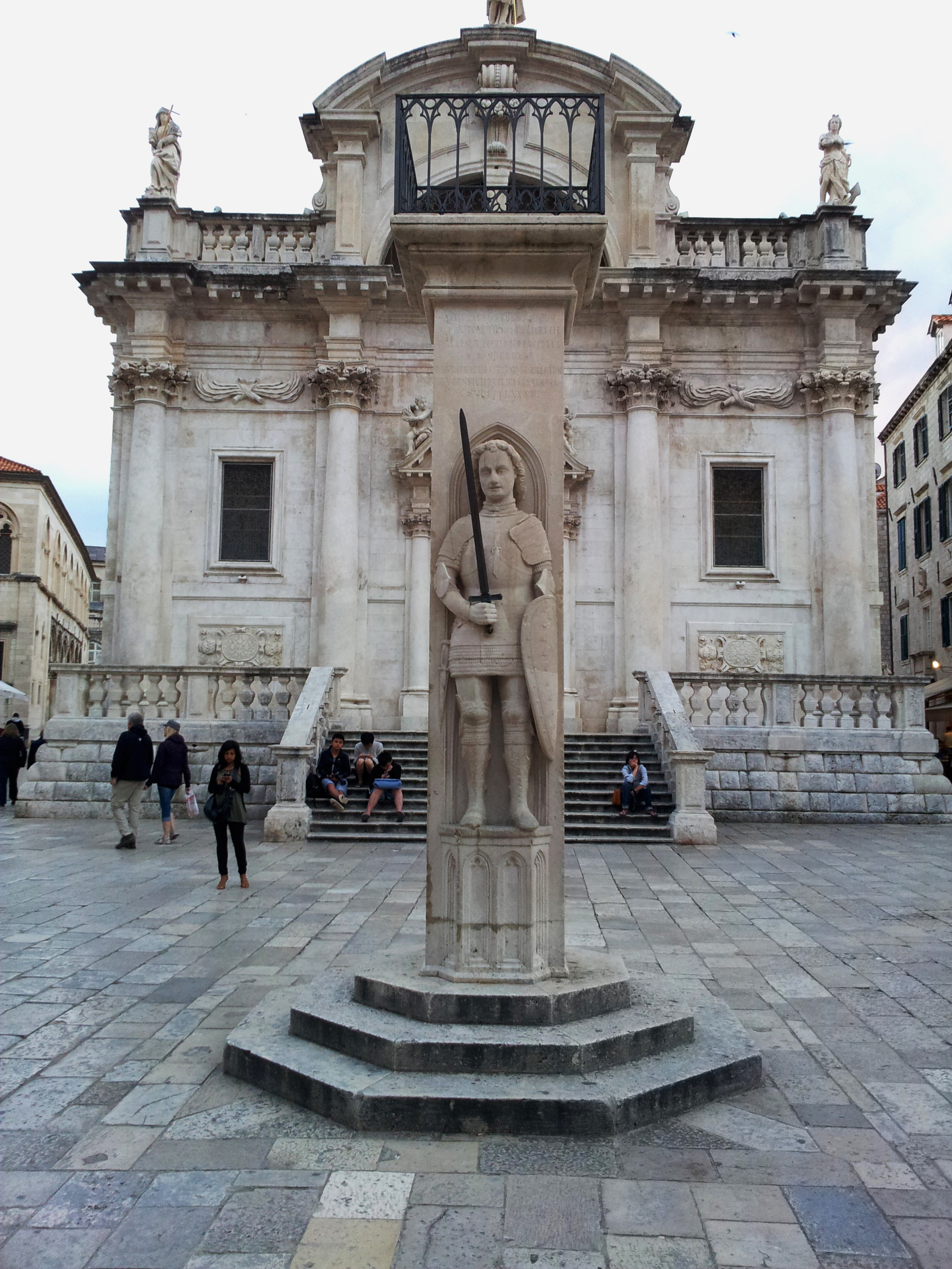 Orlando Sculpture in Dubrovnik